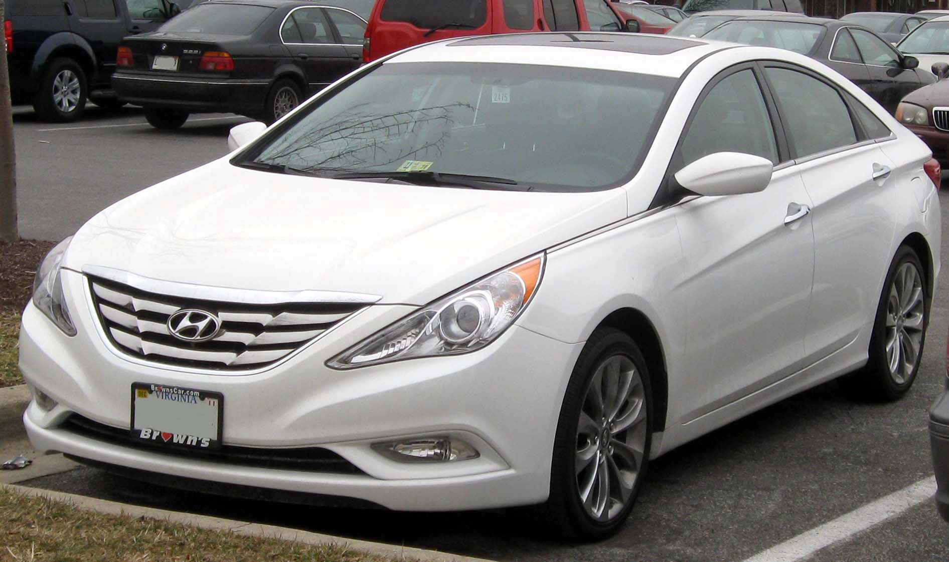 2011 Hyundai Sonata 2.0T photographed in Clinton, Maryland, USA.